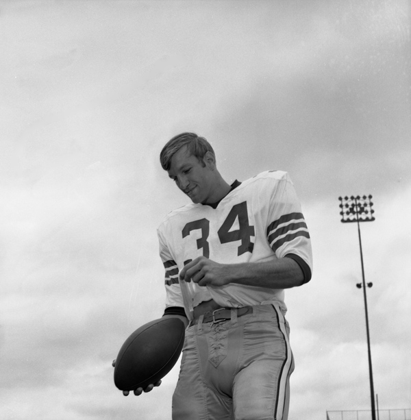 FSU football player #34 flanker Ron Sellers at practice in Tallahassee.